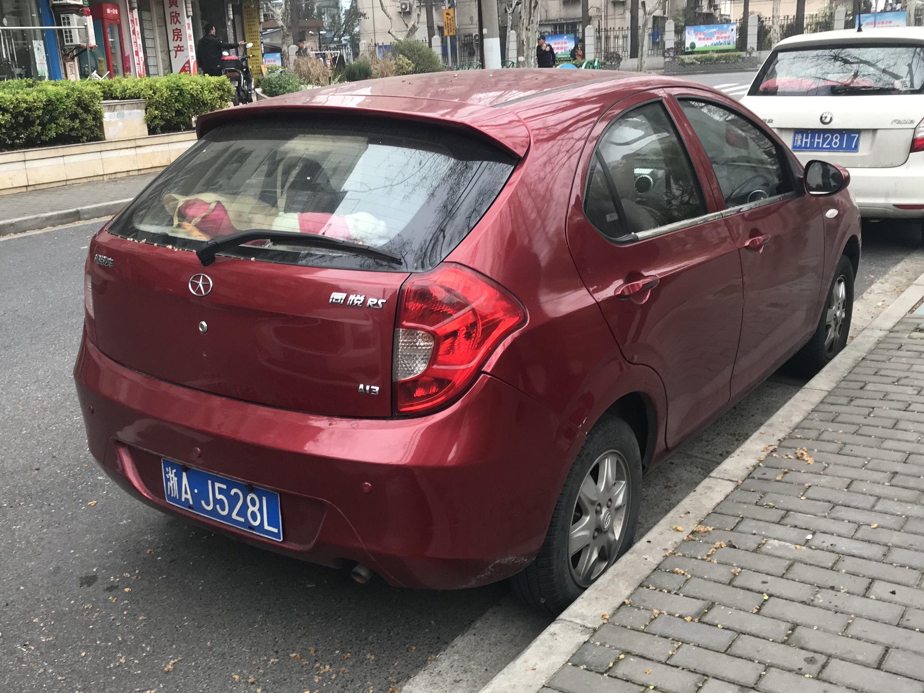 Heyue Tongyue RS rear